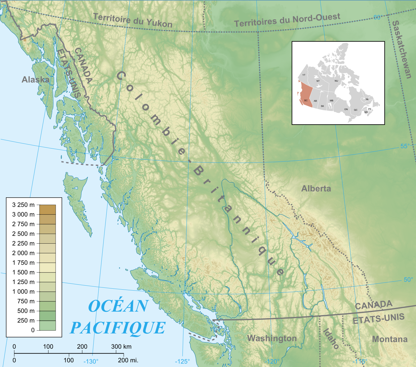 Physical map of British Columbia (Canada)